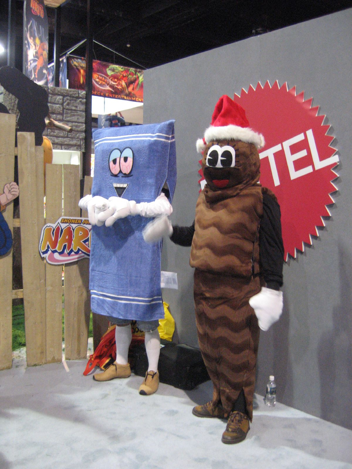 no, YOU'RE a towel